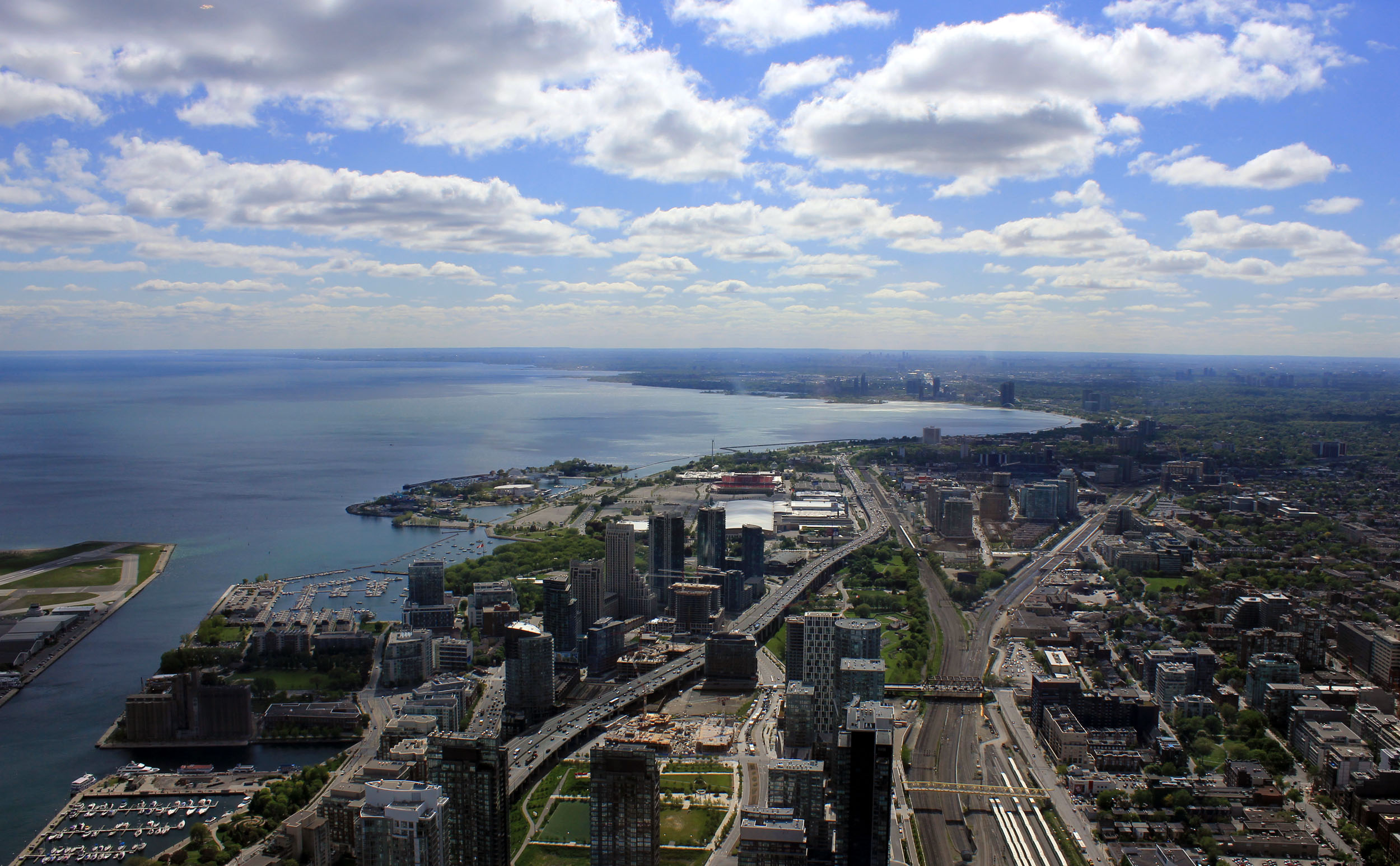 Pictures and view from Canada's largest city and the capital of Ontario View of the Shoreline from the Observation Bridge of the CN tower